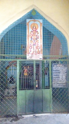 Opalnayak anjaneyar temple ஓபல் நாயக் ஆஞ்சநேயர் கோயில்